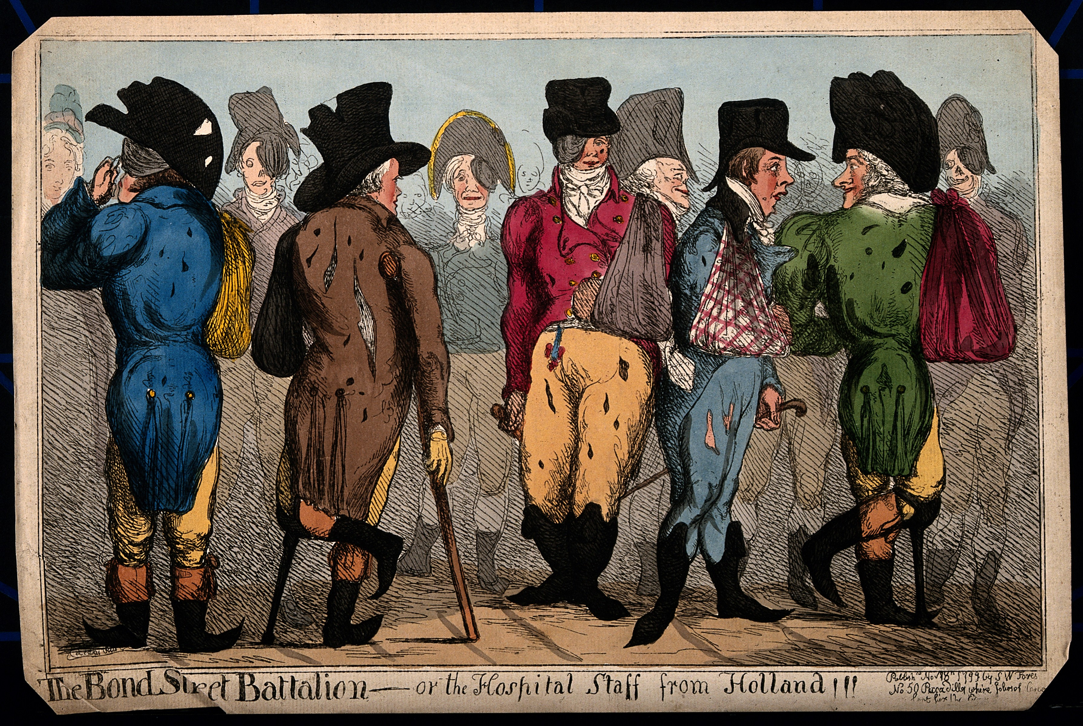 Topic-LCSH: Dandies. Costume -- History -- 18th century. Crutches. Genre/Technique: Caricatures. Etchings. Subject name: Skeffington, Lumley St. George, Sir, 1771-1850.